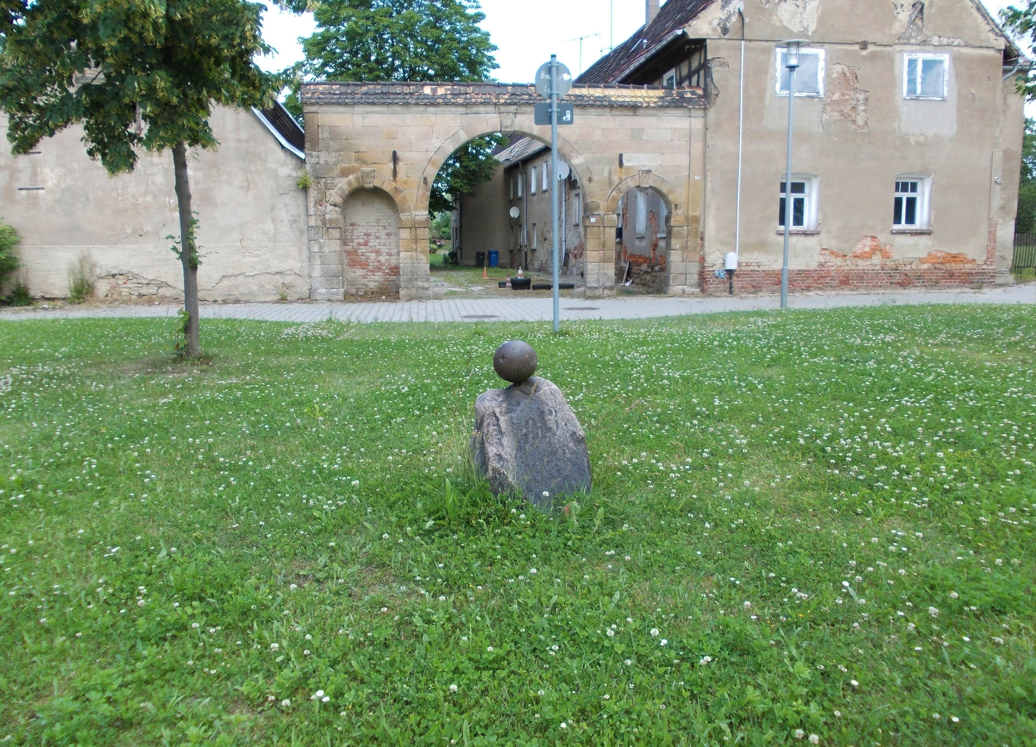 Memorial with cannon-ball from 1813 at Otto-Engert-Strasse in Prößdorf (Lucka, district of Altenburger Land, Thuringia)